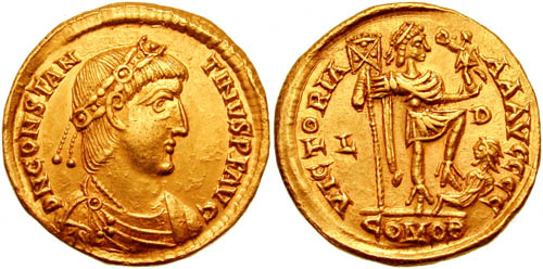 Constantine III AV Solidus. Lyons mint. D N CONSTAN-TINVS P F AVG, laurel and rosette-diademed, draped and cuirassed bust right / VICTORIA AAAVGGGG L-D, Constantine standing right, holding standard and Victory on globe, trampling on captive, COMOB in ex. Depeyrot 20/3.